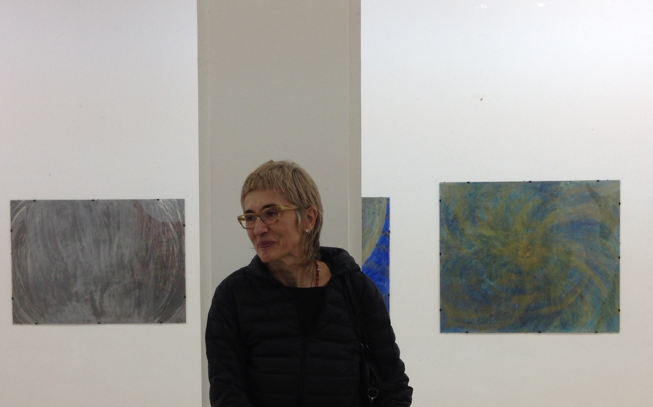 Dragana Stanaćev Puača (1957), painter from Belgrade, Serbia